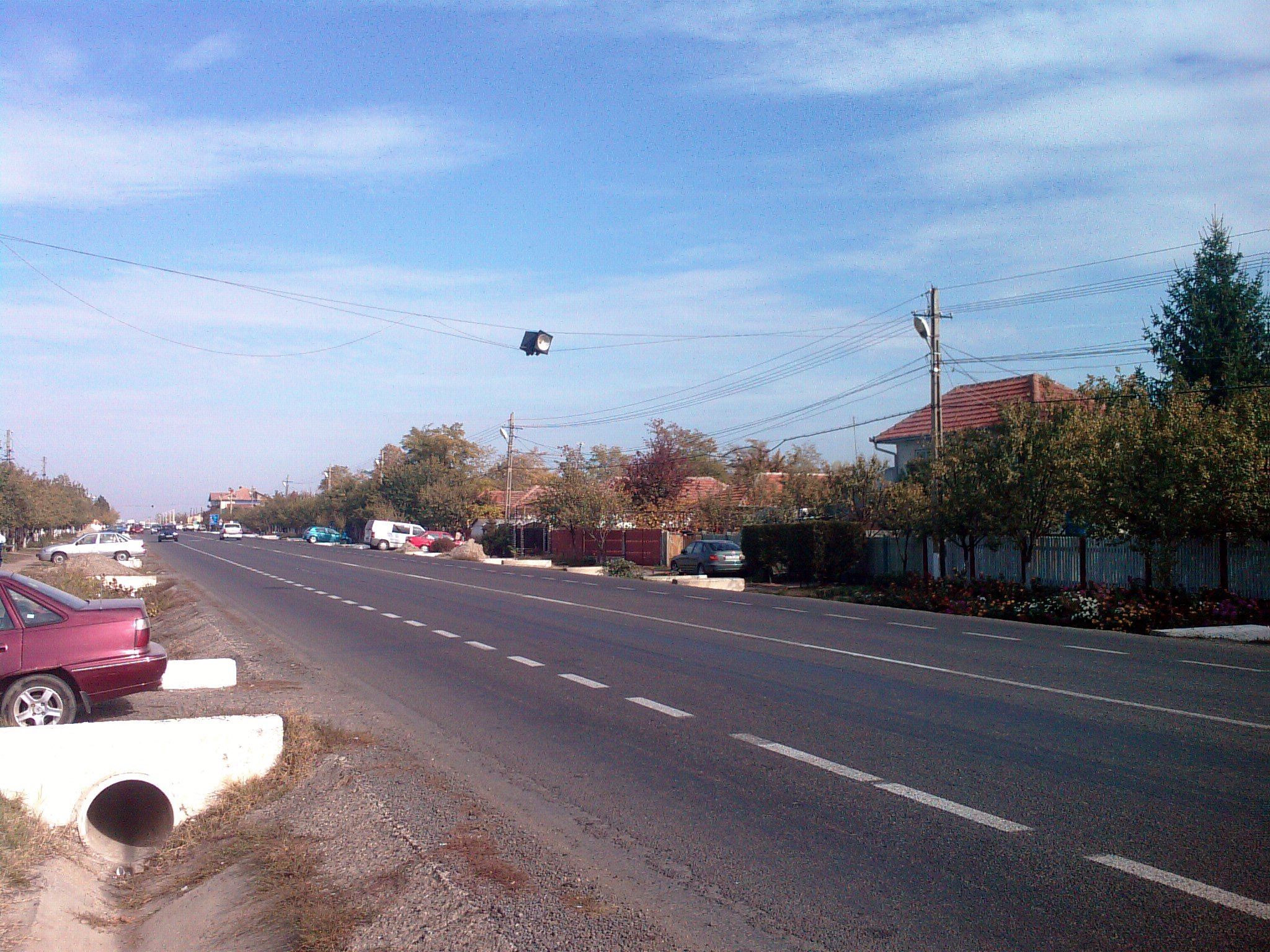 DN2, in Poşta Câlnău, Buzău County, Romania